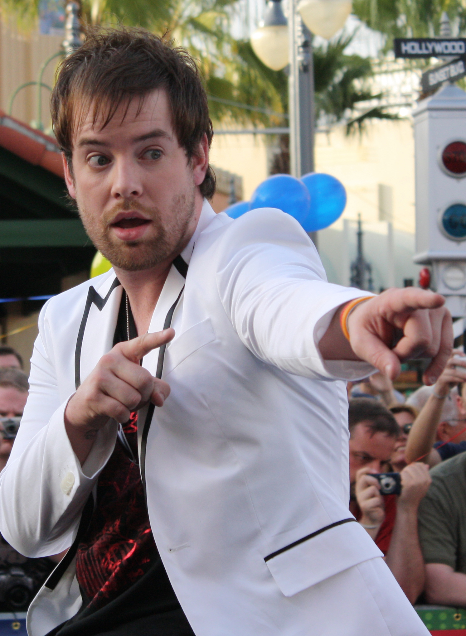 David Cook, winner of the seventh season of American Idol.